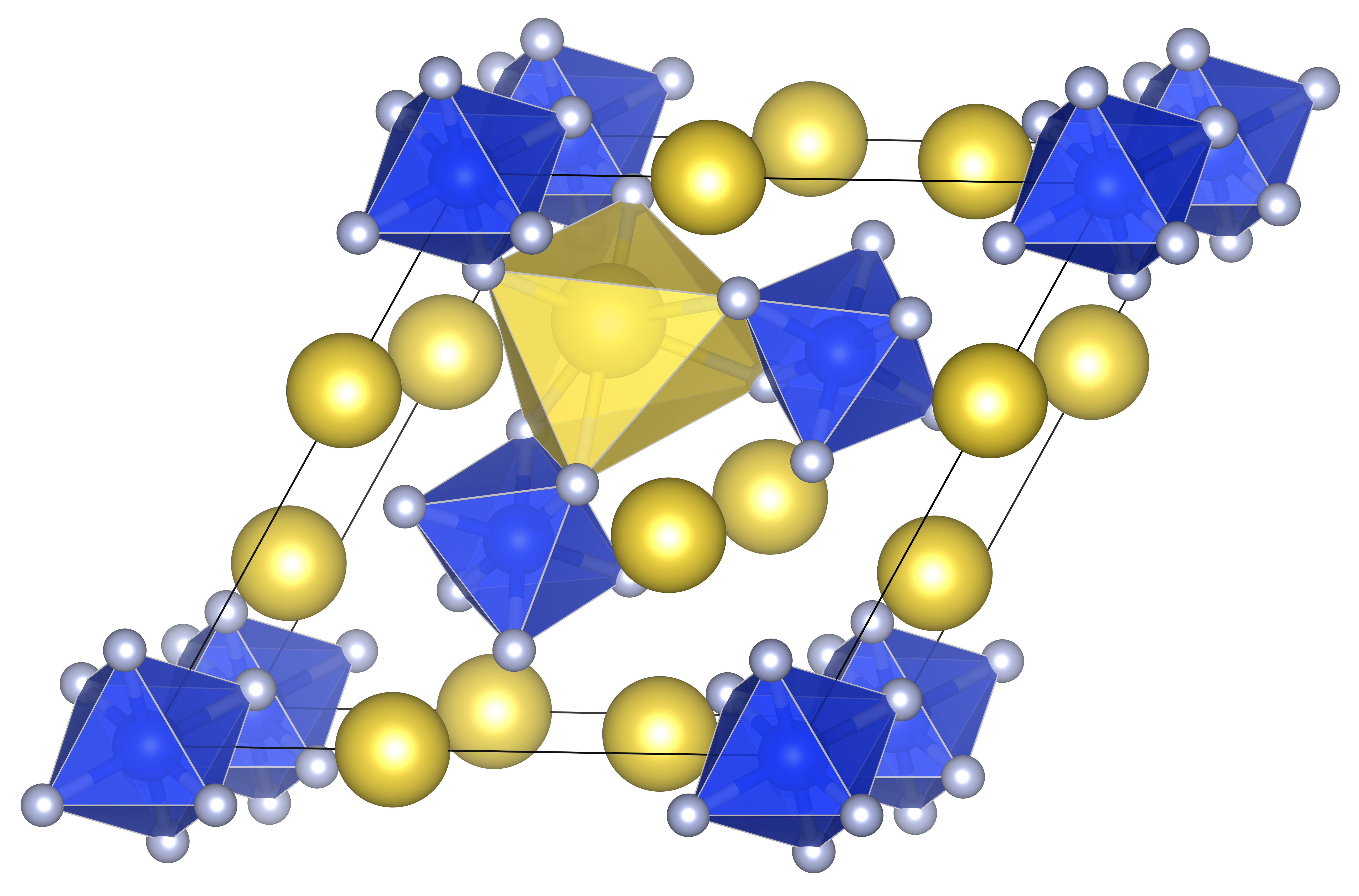 Unit cell of sodium hexafluorosilicate (Na2[SiF6]). Created with VESTA. Source of crystal structure: Allan Zalkin, J. D. Forrester, David H. Templeton (1964). "The Crystal Structure of Sodium Fluorosilicate". Acta Crystallographica 17: 1408–1412.